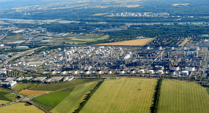 OMV Oil refinery in Schwechat, Austria in 2011